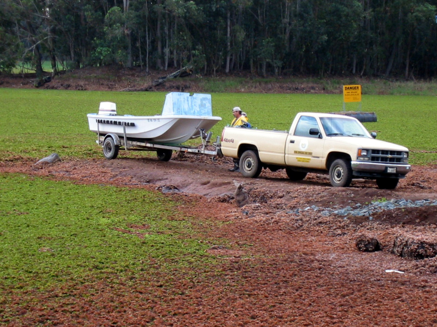 Lake Wilson in Hawaii, completely covered with giant salvinia (Salvinia molesta).